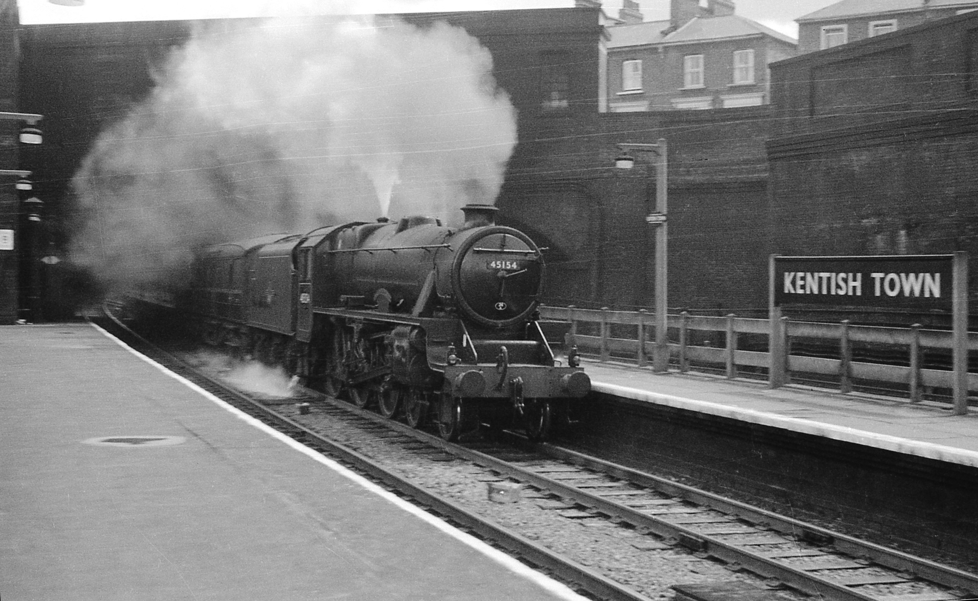 With regulator wide open, the safety valve has lifted on 'Blackie' No. 45154 "Lanarkshire Yeomanry" as she blasts out of the tunnel leading through Kentish Town station on a Midland express from St. Pancras. The fireman has put his injector on to bring the steam pressure down a little and stop the waste of precious steam from the safety valve. Included in spite of terrible scratching which I hope the viewer will excuse. Camera: Fed II 35mm. Film: Adox KB17